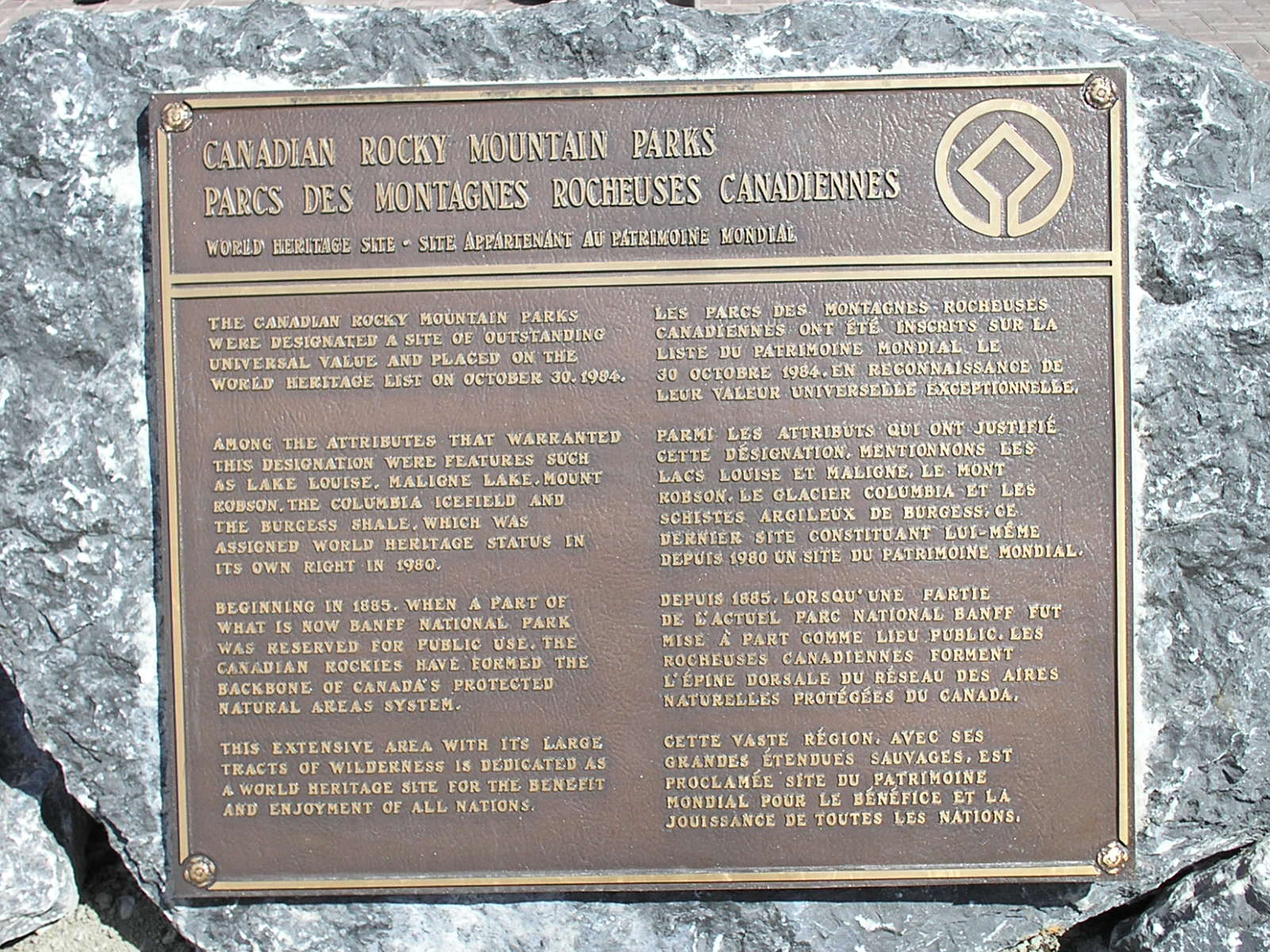 Canadian Rocky Mountain Parks declared World Heritage Site in 1984. This commemorative plaque is in Banff, Alberta, Canada. Photo taken 12 August 2005.